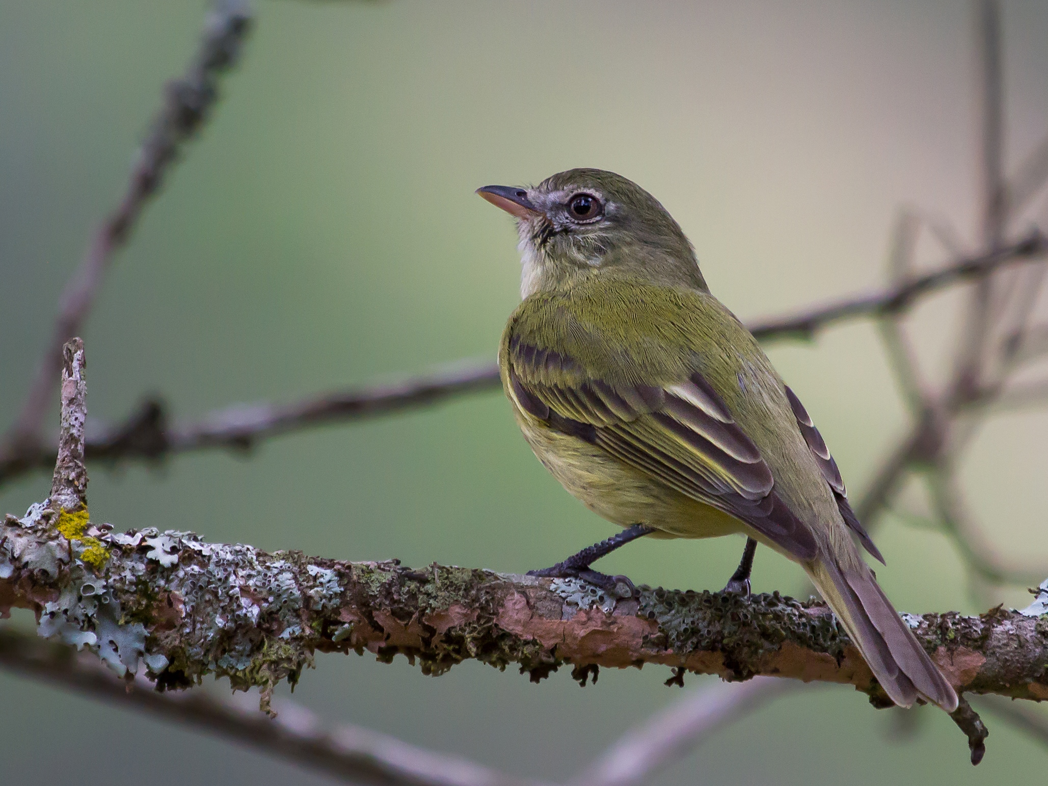 Rough-legged tyrannulet; Extrema, Minas Gerais, Brazil